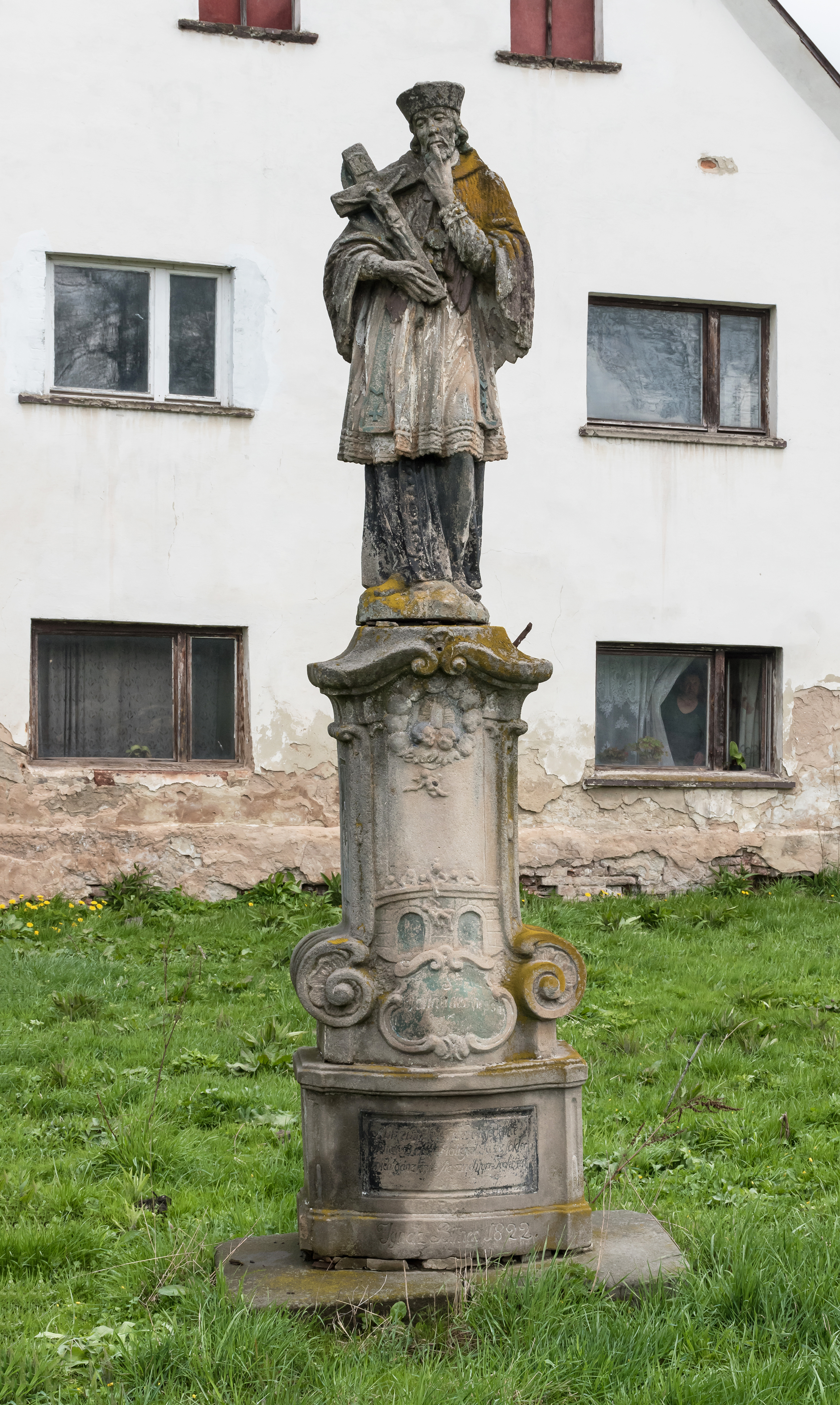 Statue of John of Nepomuk in Wojbórz